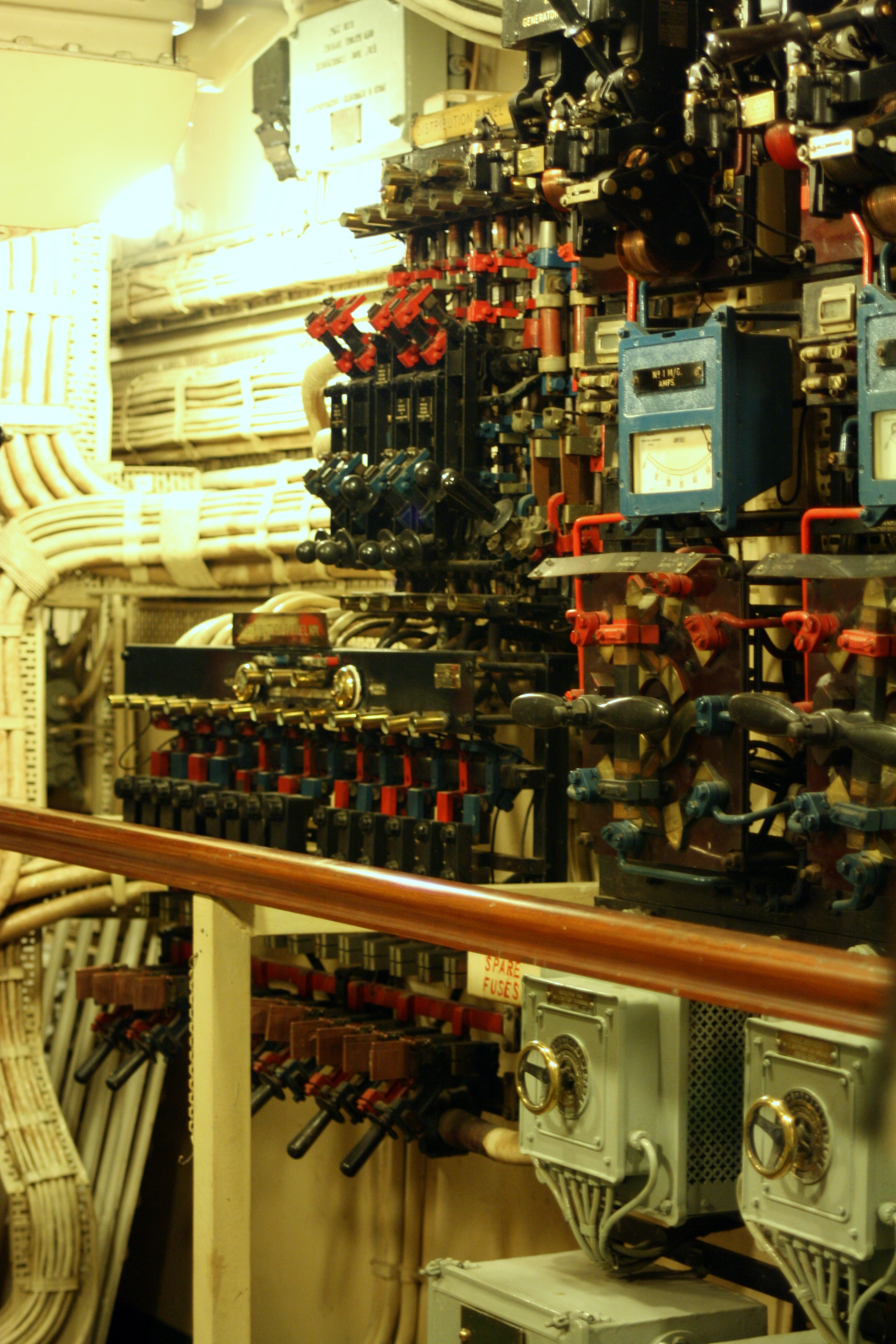 Switchboard room on HMS Belfast